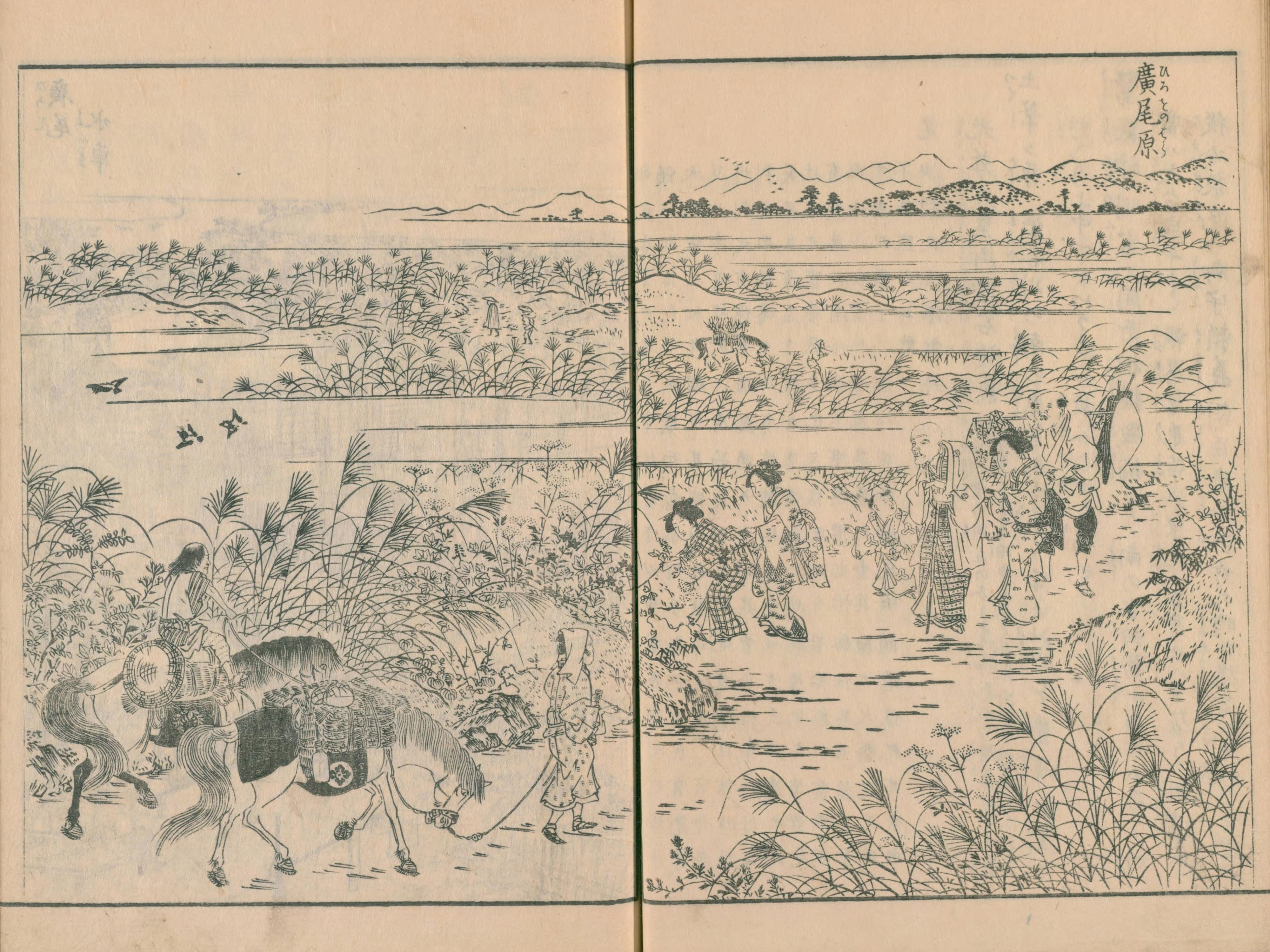 Hiroo-no-hara (Field of Hiroo) in Edo Meisho Zue vol. 3 (book 7)